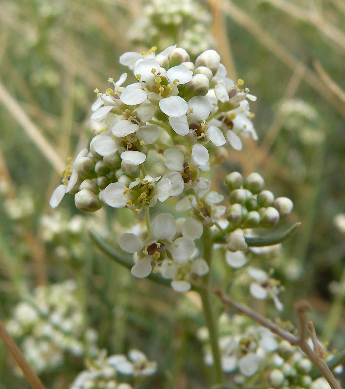 Lepidium fremontii in the Buffington Pockets area, Valley of Fire, southern Nevada